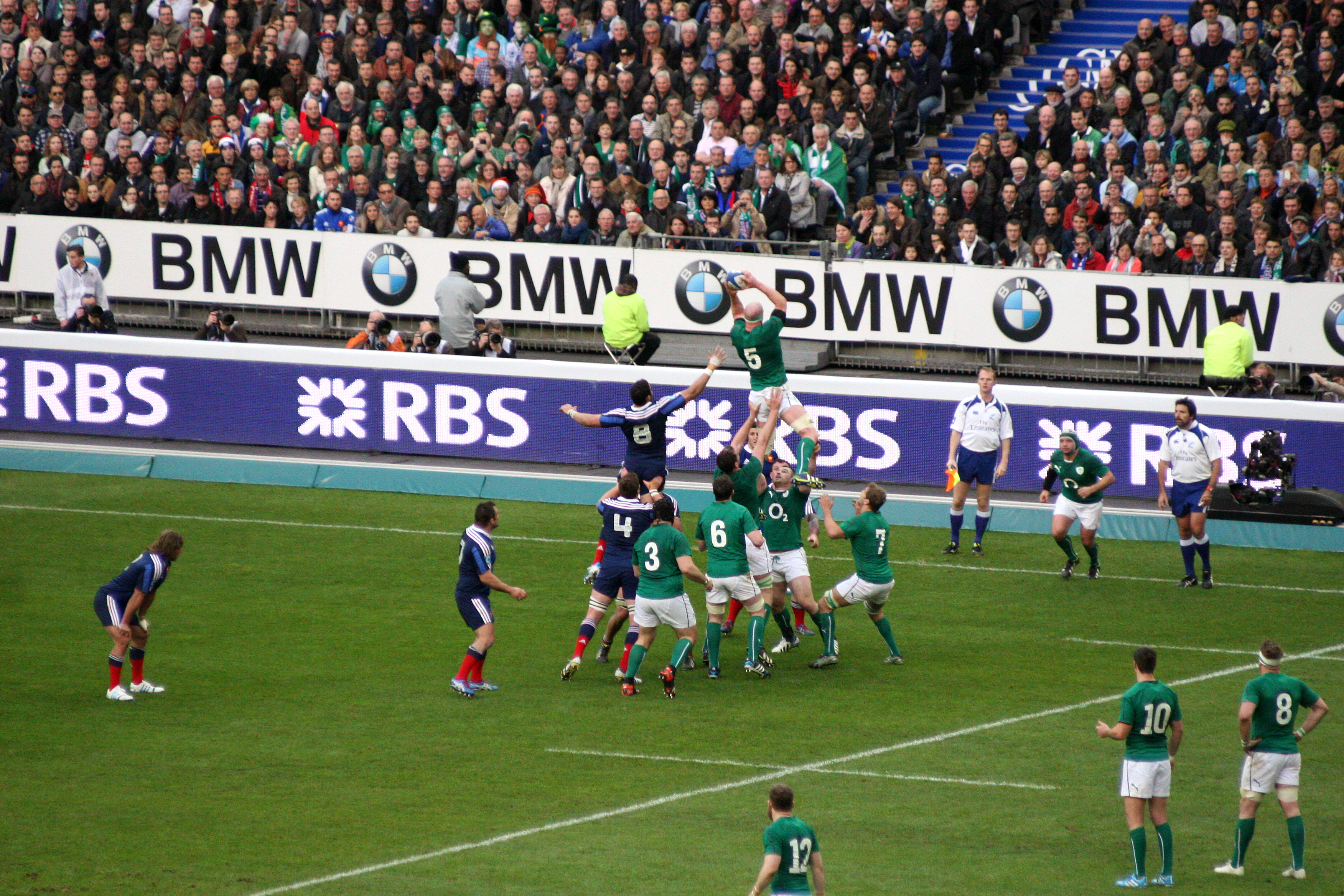 2014 Six Nations Championship, France vs Ireland. Ball catcher is Paul O'Connell